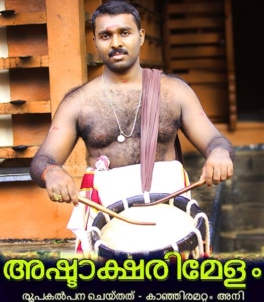 Kanjiramattom Ani